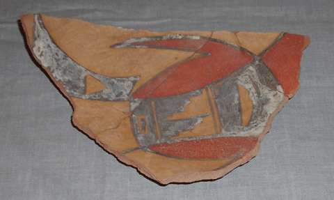 Large sherd of Pottery Mound Polychrome in the Sikyatki style. This view is of the bowl interior. The bowl exterior is slipped red.